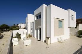 Post-Roman era villa in Sicily Modica